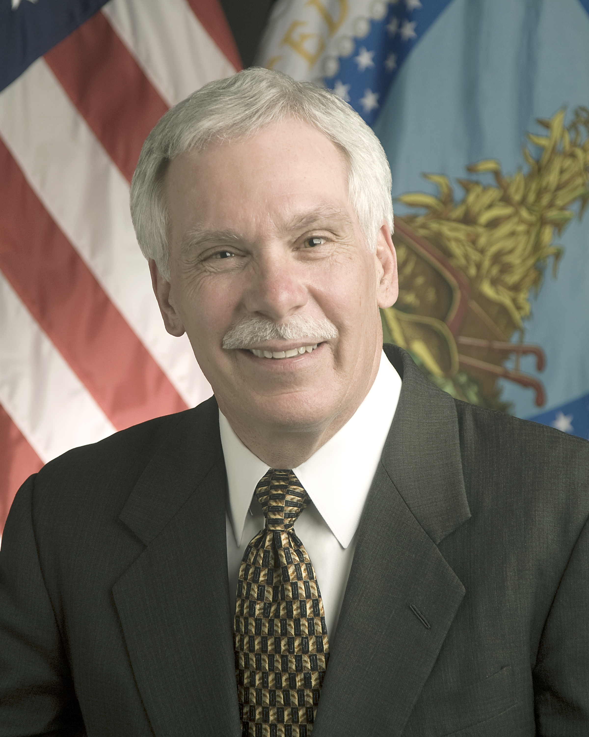 US Secretary of Agriculture (USDA) Ed Schafer, 2008-.